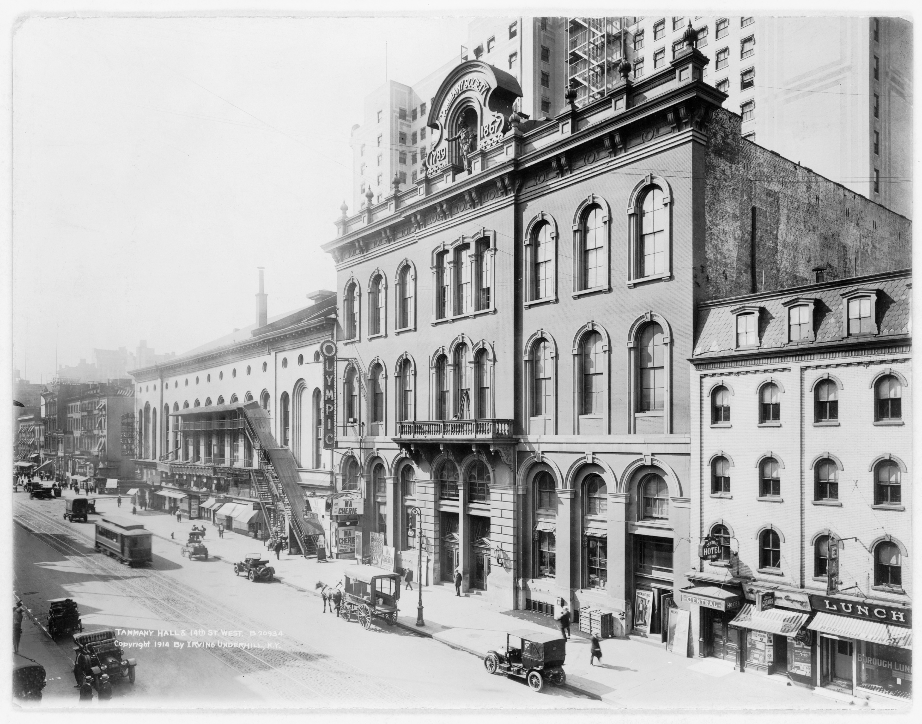 Tammany Hall & 14th St. West, New York City, 1914.